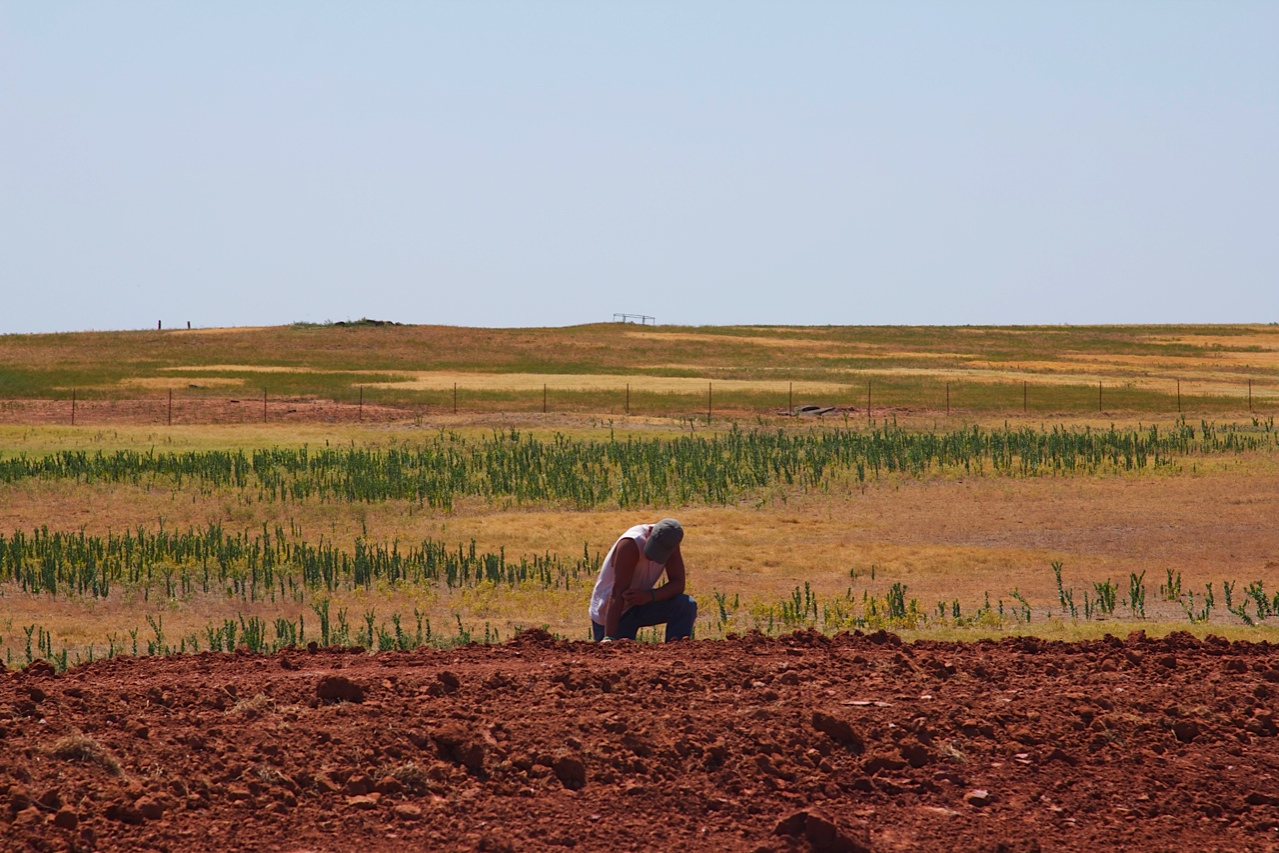 Extreme heat and drought are spreading across 14 states in the US, from Arizona all the way to Florida